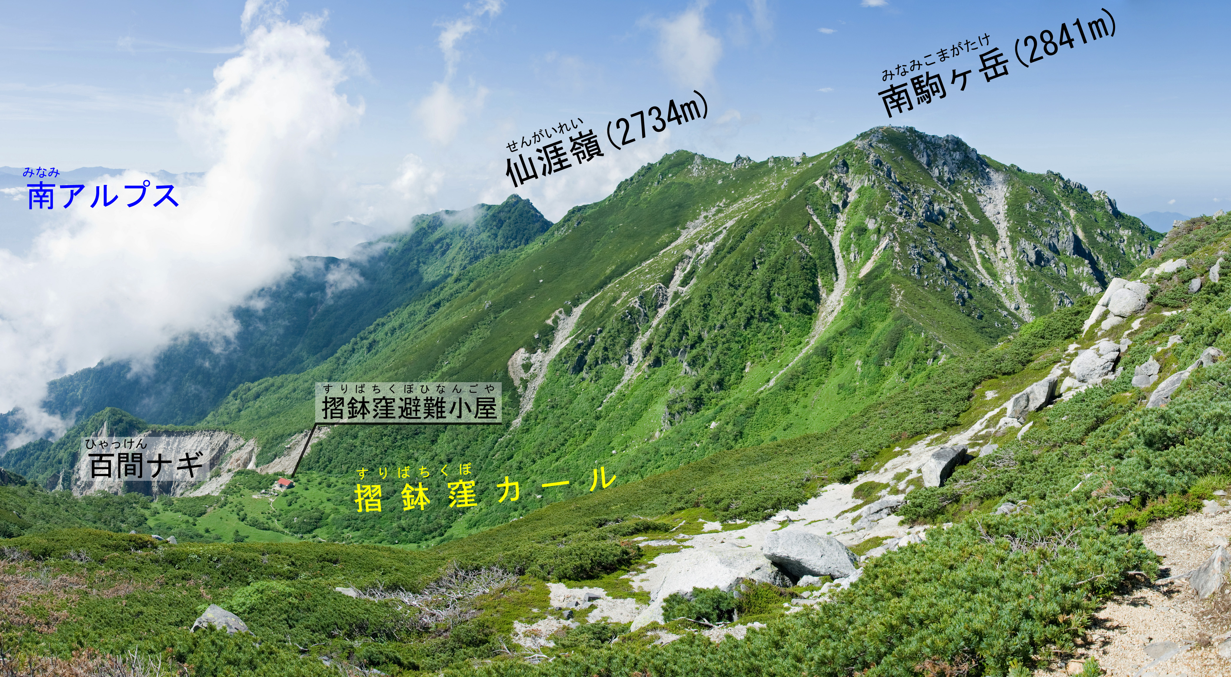 Mt.Minamikomagatake and Sribachikubo-cirque as seen from Mt.Akanagidake in Mts.Kiso, Nagano Pref., Japan.